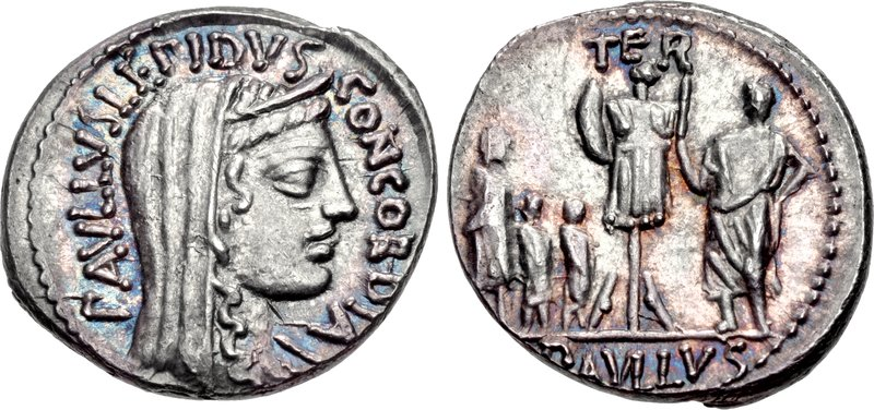 Roman Republic: Lucius Aemilius Lepidus Paullus. 62 BC. AR Denarius (18mm, 3.89 g, 6h). Rome mint. on l. PAVLLVS•LEPIDVS on r. CONCORDIA. Veiled and diademed head of Concordia right Trophy. above TER; to left, three captives (King Perseus of Macedon and his two sons) standing right; to right, Lucius Aemilius Paullus Macedonicus standing left. In exergue PAVLLVS